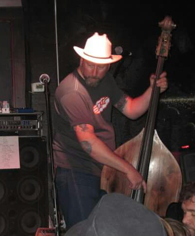 Mark Robertson live performance.